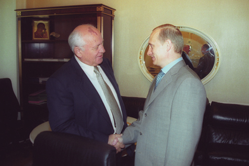 THE KREMLIN, MOSCOW. With last President of the Soviet Union Mikhail Gorbachev.